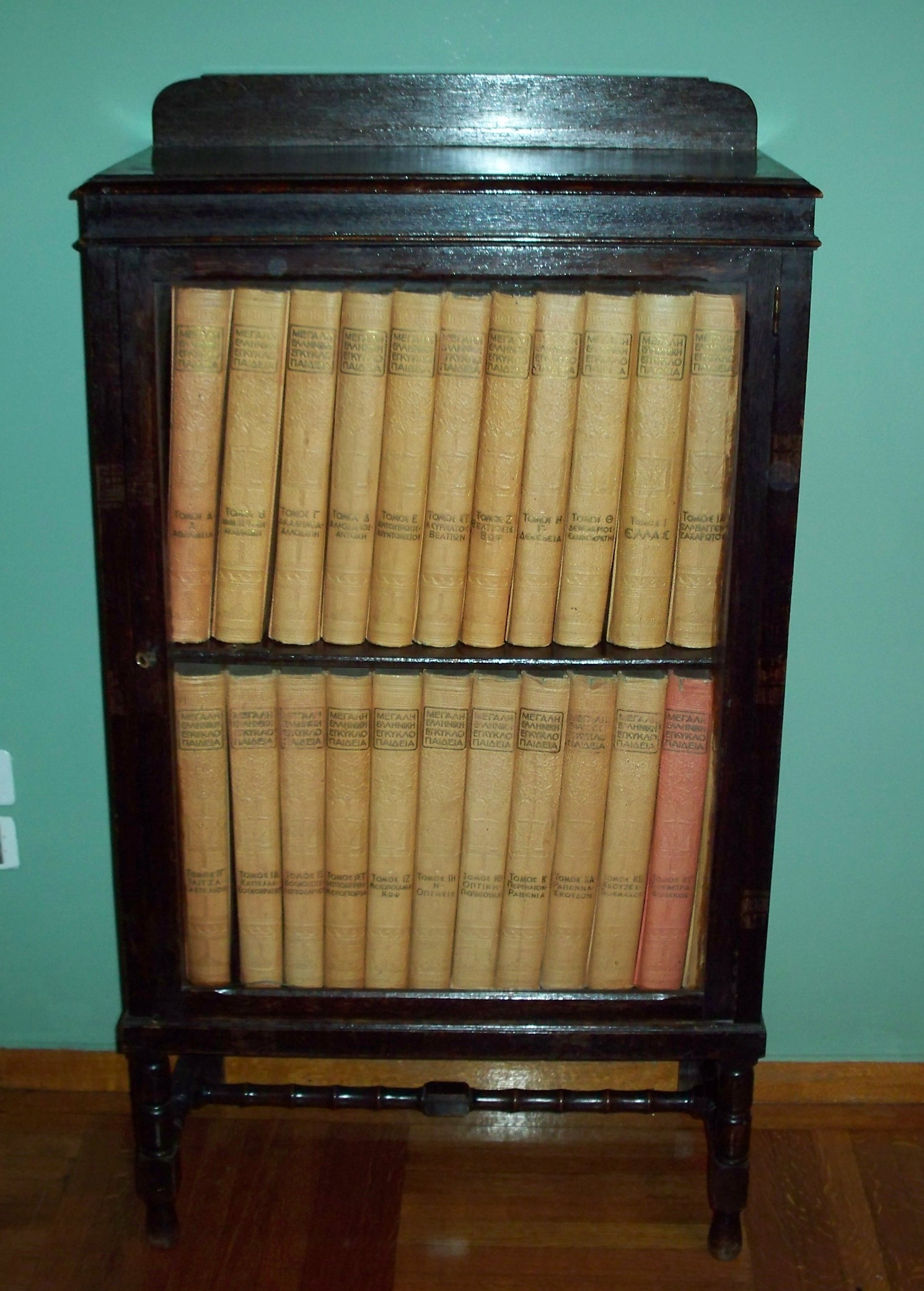 The Great Greek Encyclopedia in the bookcase that accompanied it, c. 1930